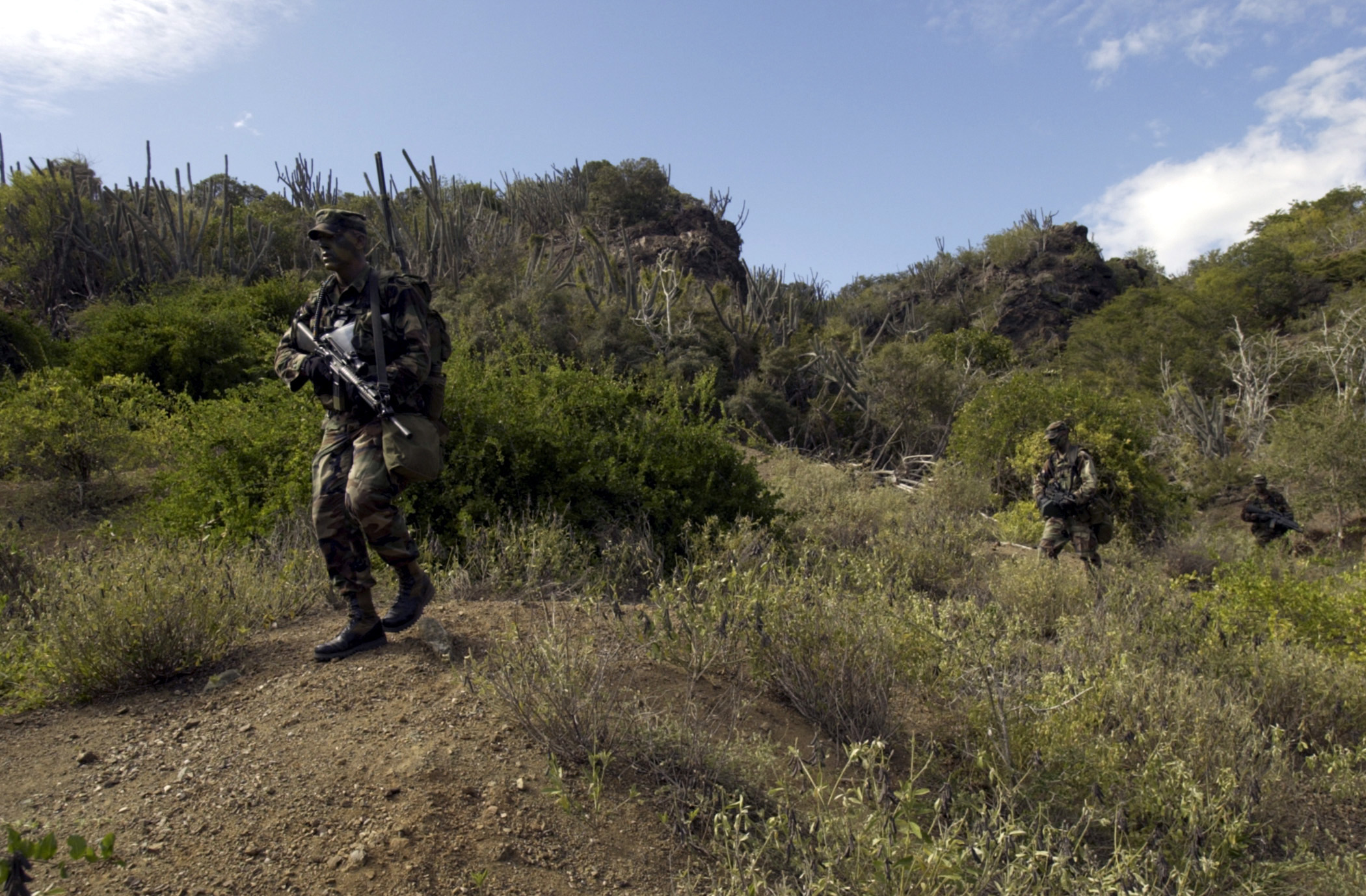 Soldiers from the Army's 166th Infantry, 2nd Battalion, Charlie Company conduct a dismounted patrol in Guantanamo Bay, Cuba. At Joint Task Force Gantanamo, the infantry provides security to the detainee compound.